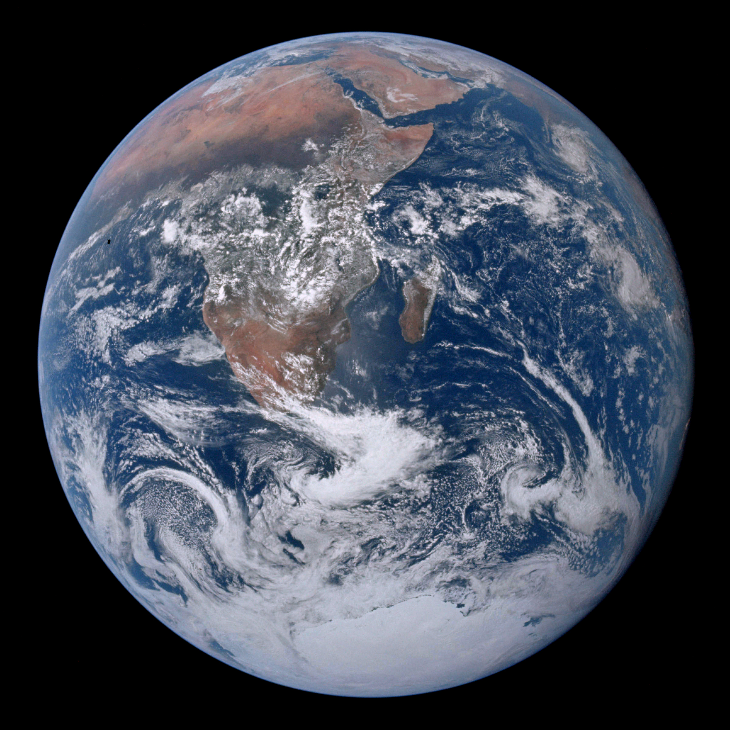 "The Blue Marble" is a famous photograph of the Earth taken on December 7, 1972 by the crew of the Apollo 17 spacecraft en route to the Moon at a distance of about 29,000 kilometers (18,000 statute miles). It shows Africa, Antarctica, and the Arabian Peninsula.